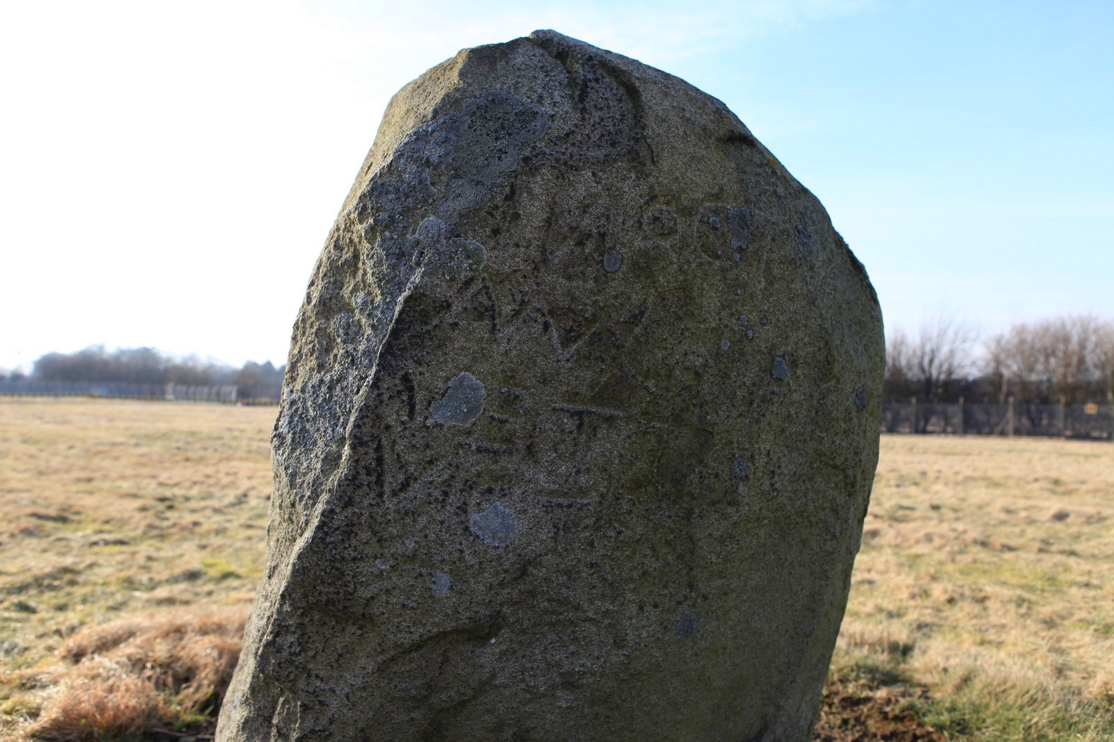 Latin Inscription on the Cat Stane at Edinburgh Airport This stone is located 'airside' at Edinburgh Airport and access is not normall available. Further information can be found here